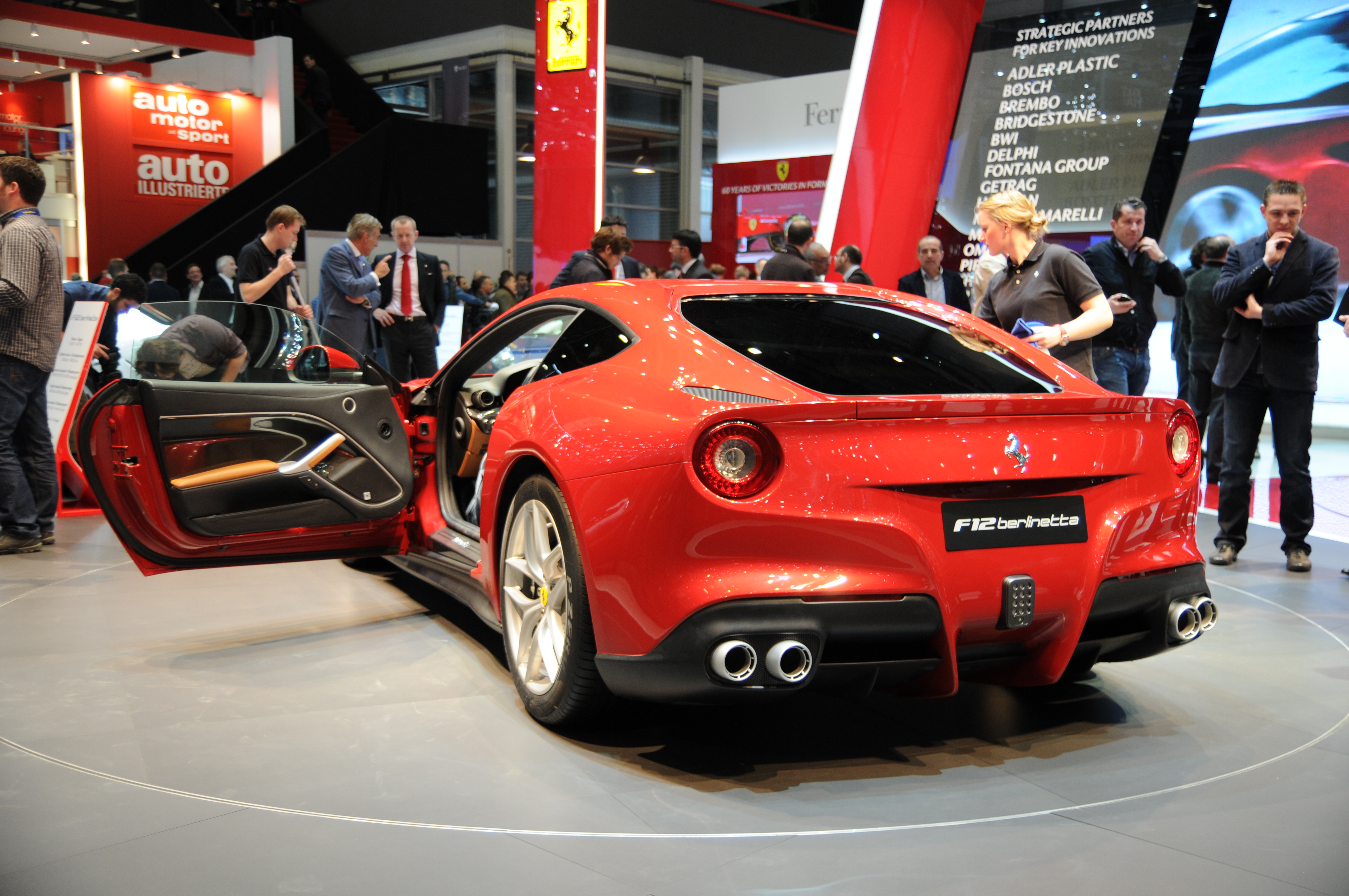 Geneva Motor Show 2012 (photos taken on the second press day)